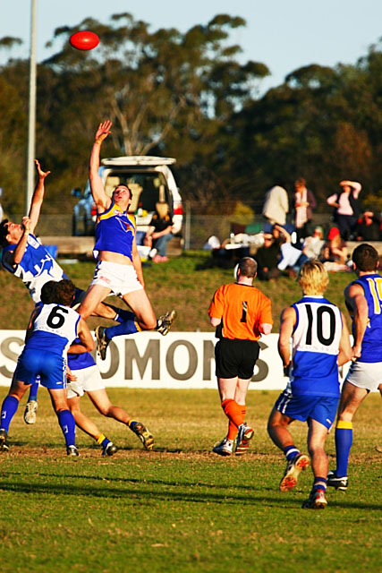 Contesting the bounce, Australian Rules Football photo by Mike Funnell (mfunnell) 08JUL2006, East Coast Eagles vs Campbelltown, in western Sydney.